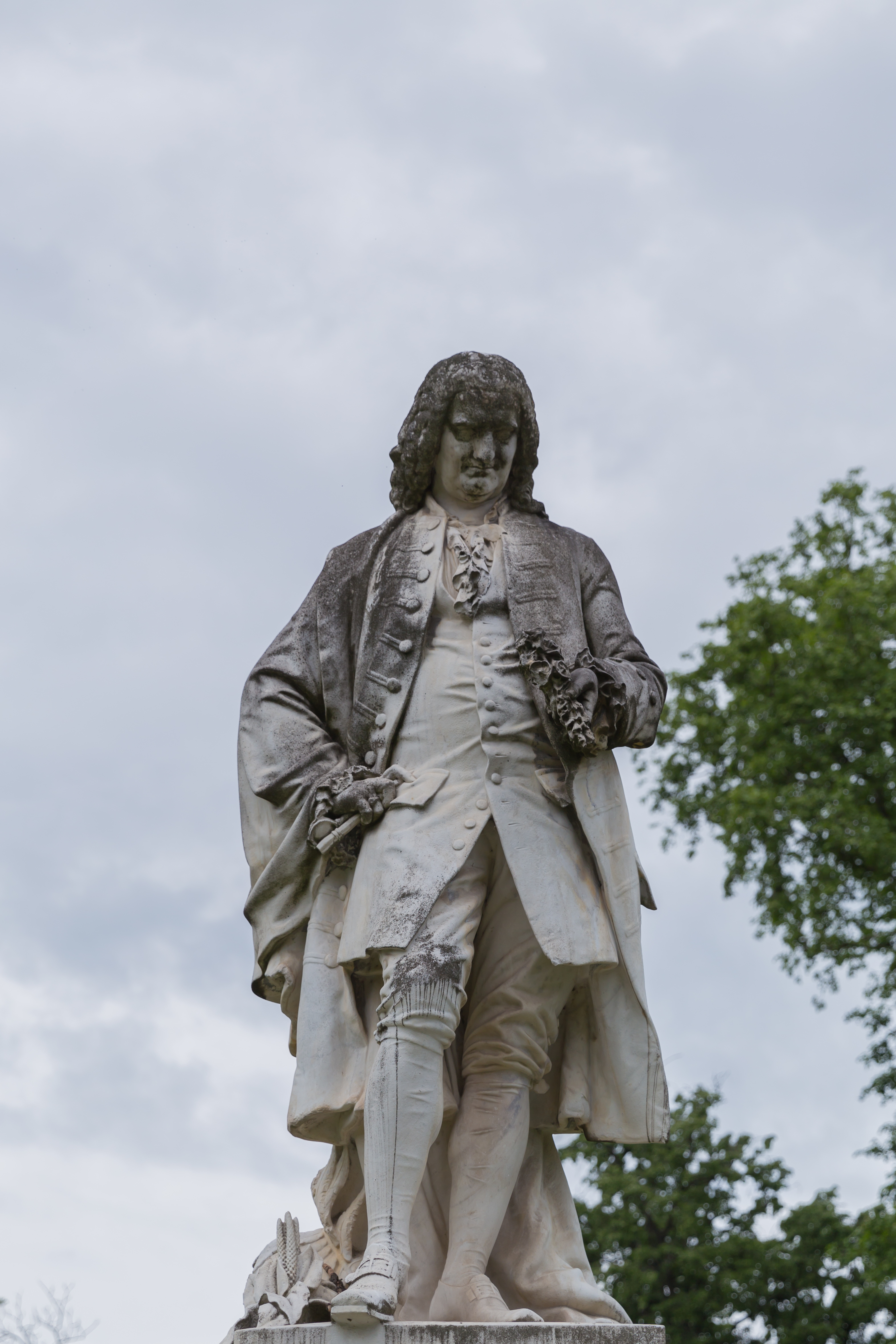 Satue botanist Bernard de Jussieu born in 1699 and died in 1777.